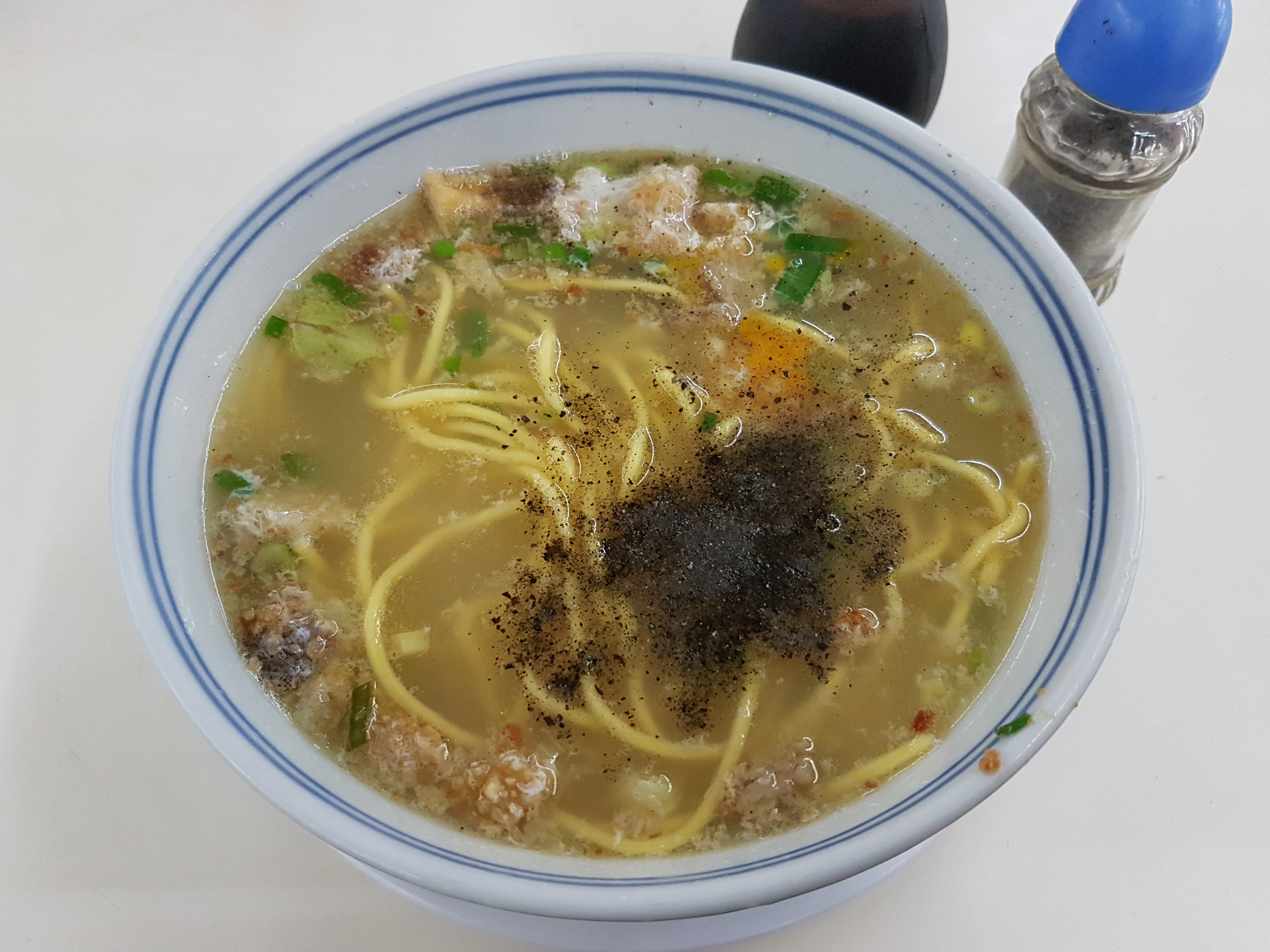 Batchoy, a Philippine noodle dish